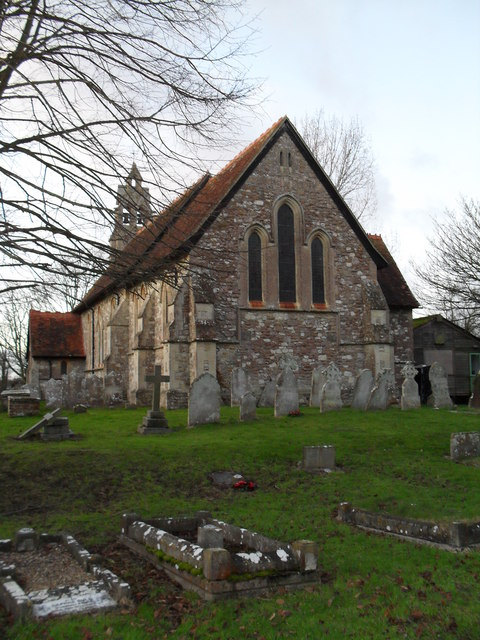 St Leodegar, Hunston